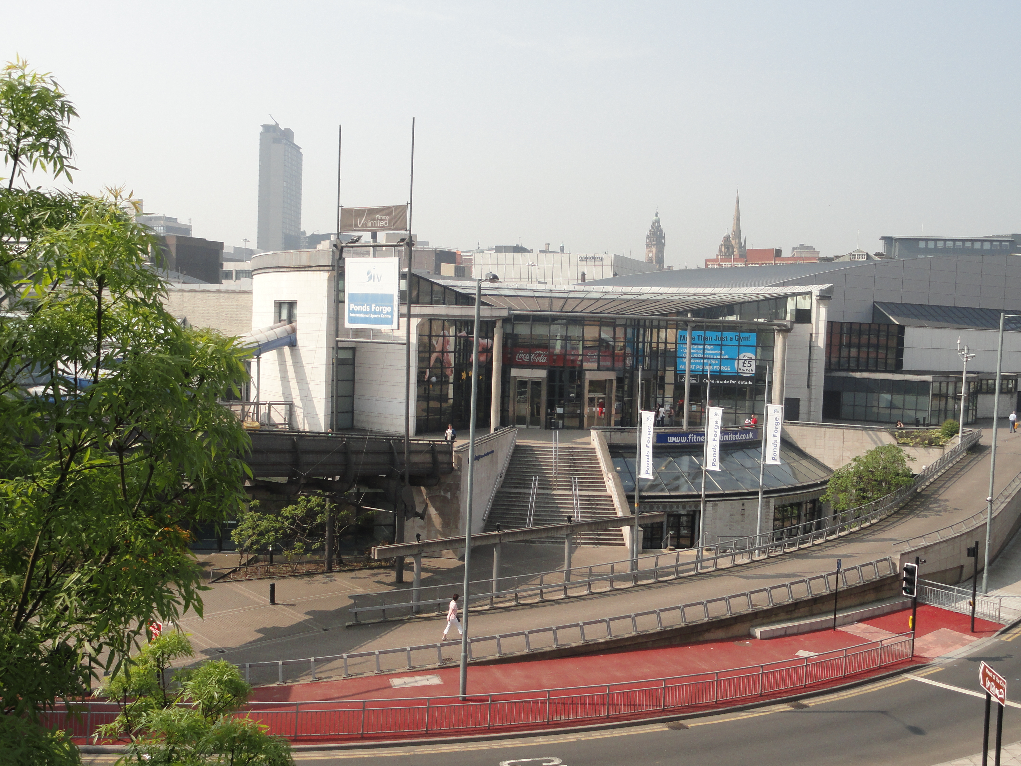 Ponds Forge International Sports Centre, Sheffield